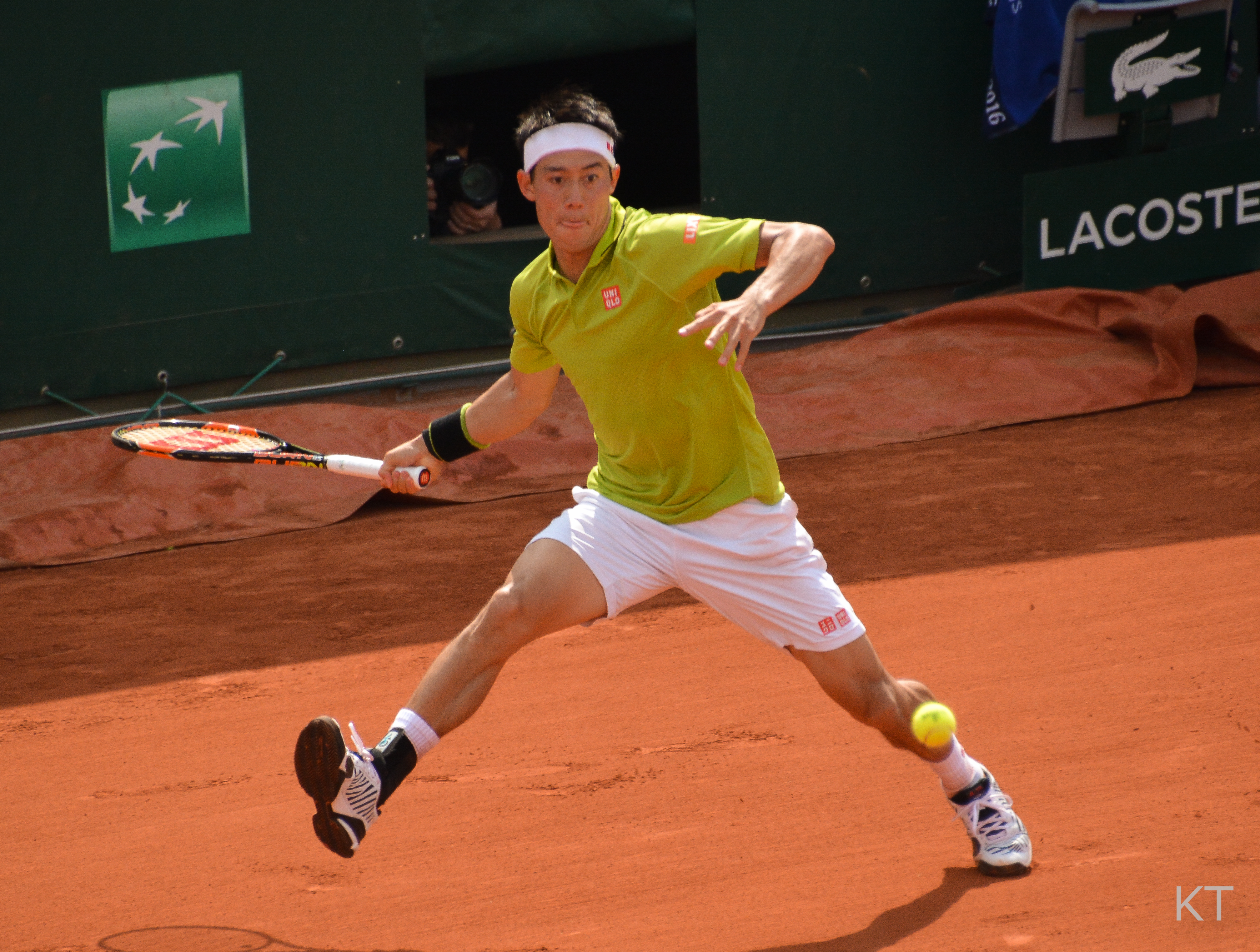 Day 6 of Roland Garros 2016